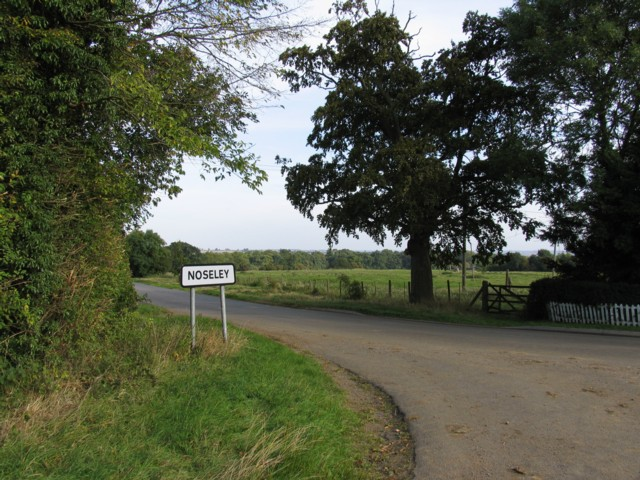 Approaching Noseley. 147931 is in the fields in the background.